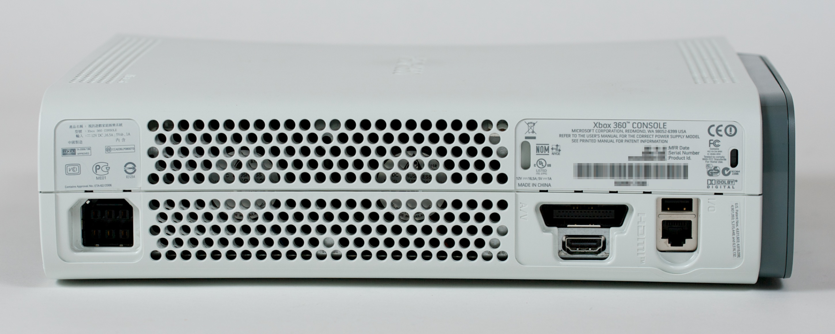 Xbox 360 (White, HDMI, 203W) back view.